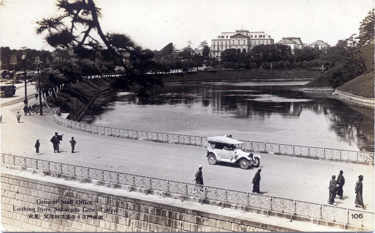 Commemorative postcard showing Imperial Japanese Army General Staff HQ, Tokyo